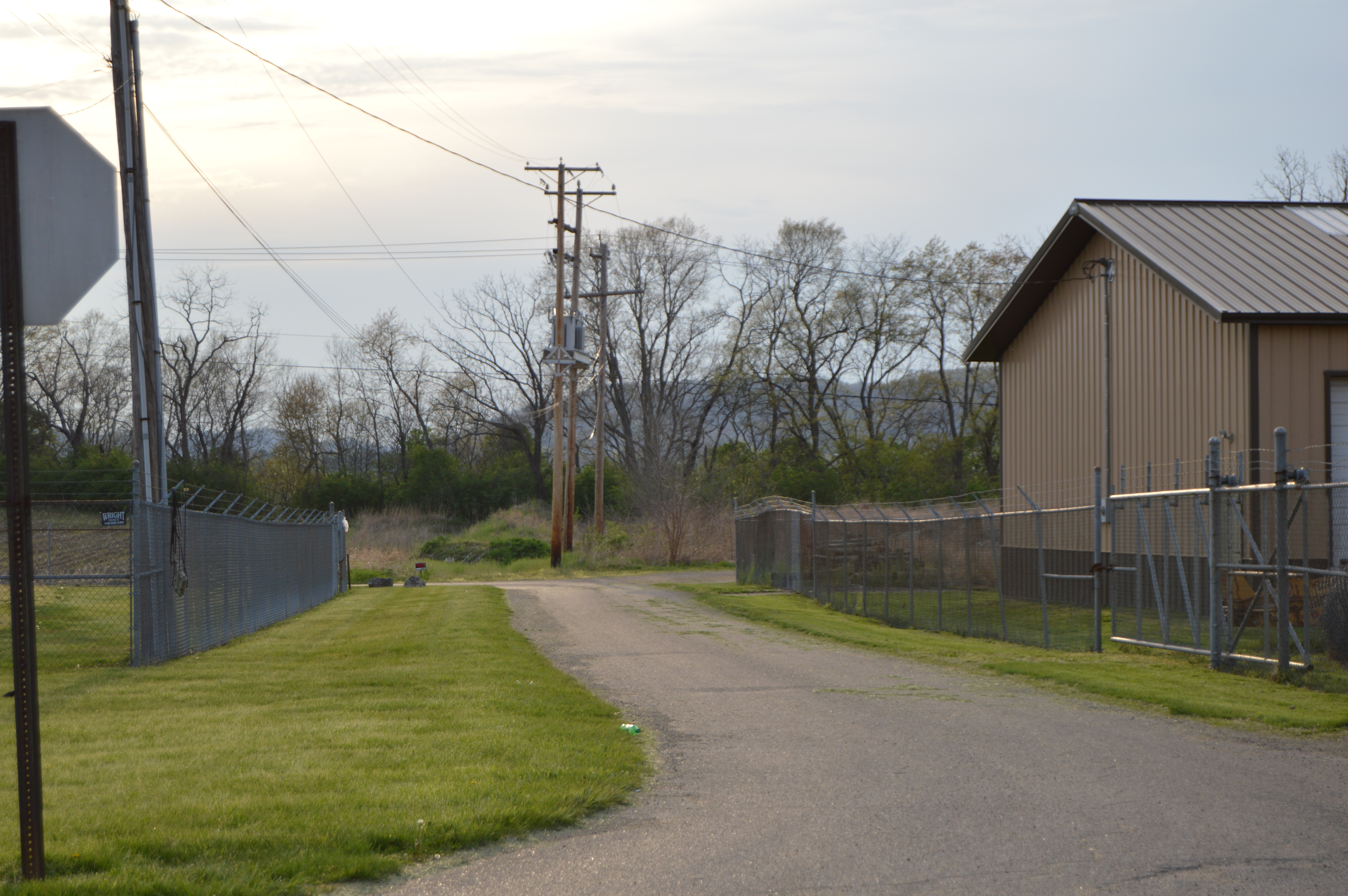 Looking west from Arrowhead South Road toward the Feurt Site in Clay Township, Scioto County, Ohio, United States. As a significant archaeological site, the village site it is listed on the National Register of Historic Places.